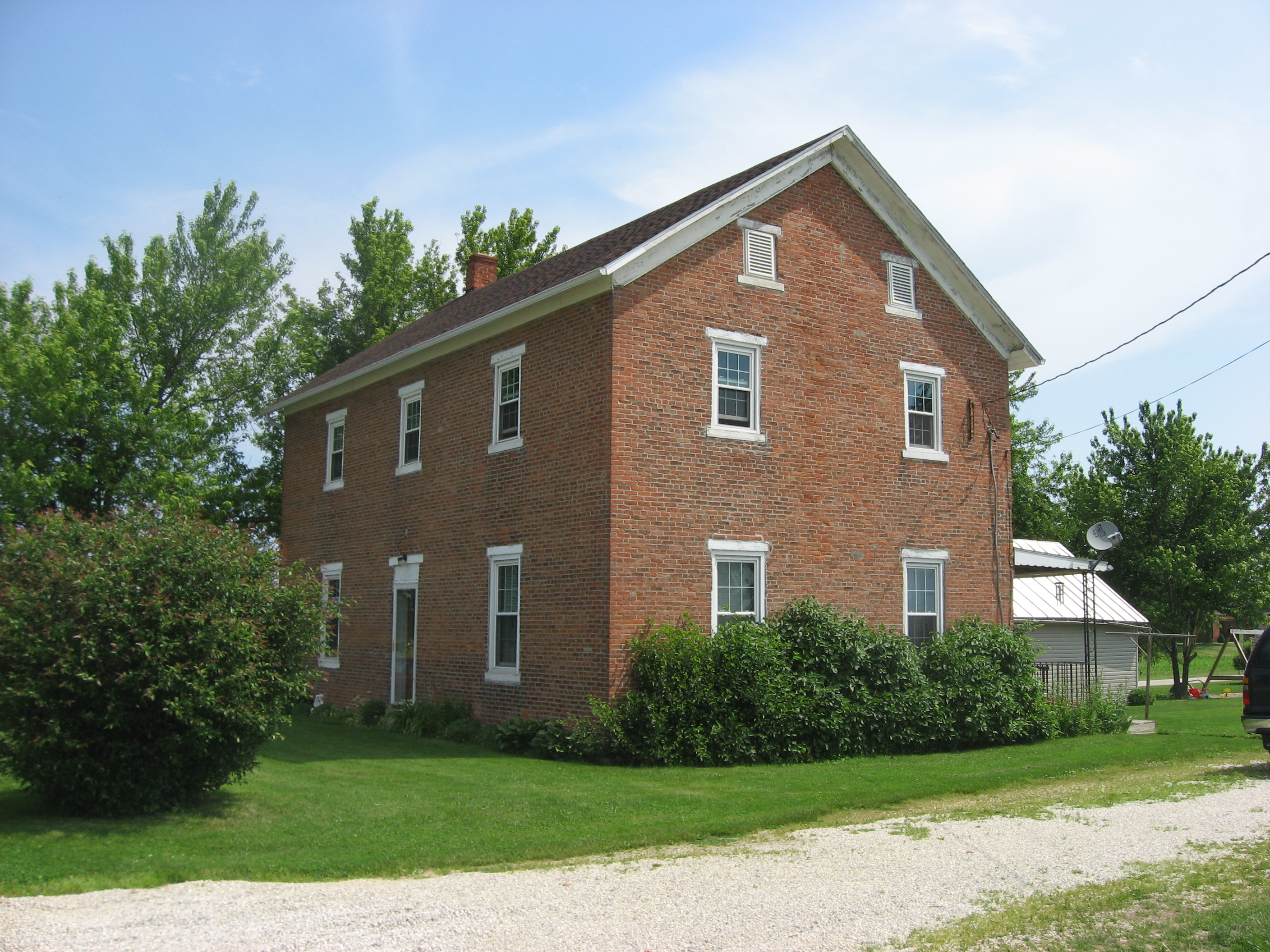 Front and southern side of the Gruenwald Convent, located along Montezuma Road south of Cassella in Marion Township, Mercer County, Ohio, United States. Built in 1854, it was listed on the National Register of Historic Places as a part of the Cross-Tipped Churches of Ohio Thematic Resources.